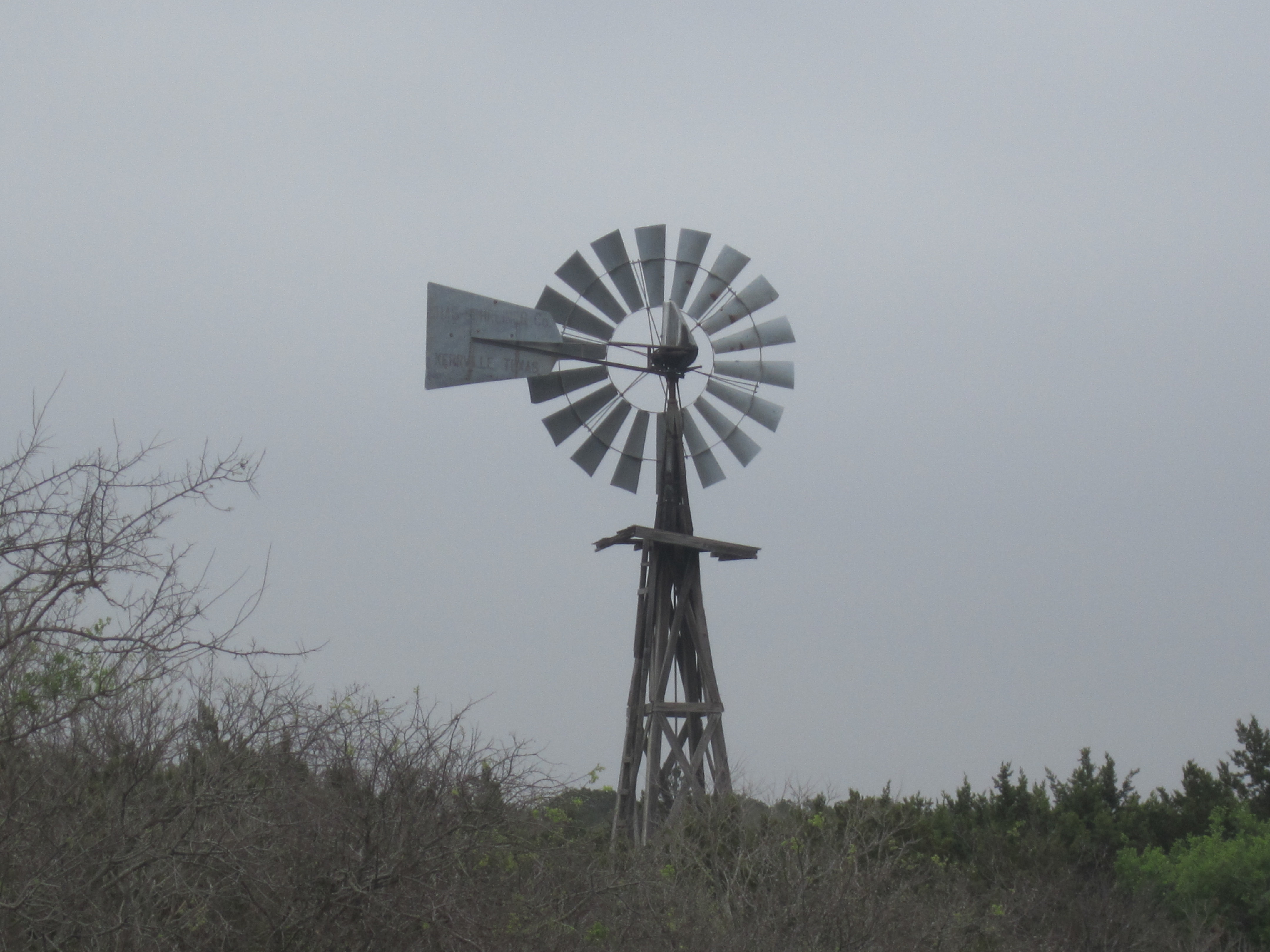 I took photo with Canon camera in Real County, TX.